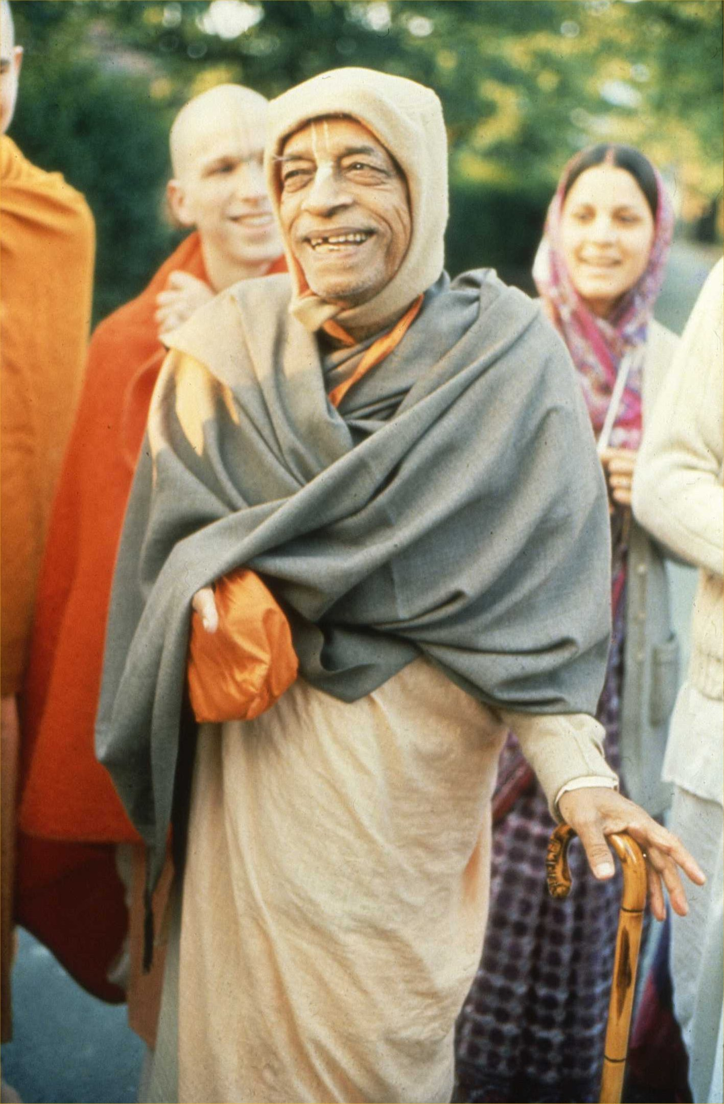 Bhaktivedanta Swami Prabhupada on a morning walk with his disciples in Germany